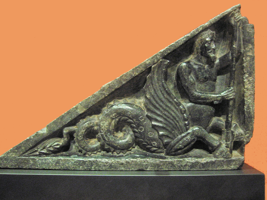 Gandhara relief, Victoria and Albert Museum. Personal photograph 2005.